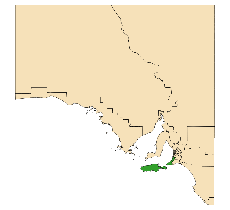 Electoral district 2018 boundaries shown in green